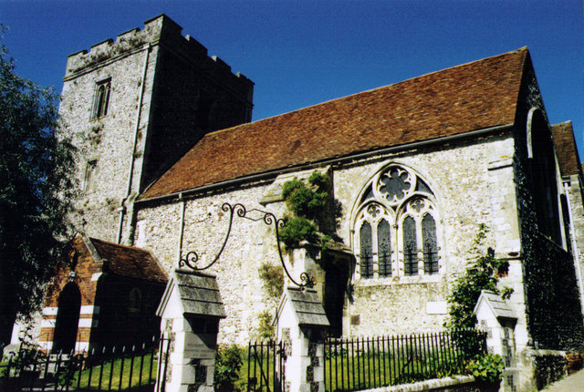 St John the Baptist, Winchester Listed building erected in 1193.